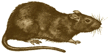 A brown rat, Rattus norvegicus?